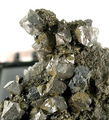 Siegenite Locality: Buick Mine (Amax Buick Mine; Moloc Mine), Bixby, Viburnum Trend District, Iron County, Missouri, USA (Locality at ) Size: 2.4 x 2.4 x 1.2 cm. Siegenite is an uncommon cobalt, nickel sulfide and is an extremely rare mineral from Missouri’s Viburnum Trend. Isolated, extremely sharp, isometric, steel-gray siegenite crystals are very aesthetically scattered on the matrix crust and are nicely accented by contrasting chalcopyrite microcrystals. The lustrous siegenite crystals reach 5 mm. This thumbnail is very high-grade, older material from the famous Buick Mine and is seldom available in this quality. Ex. Carl Davis Collection.